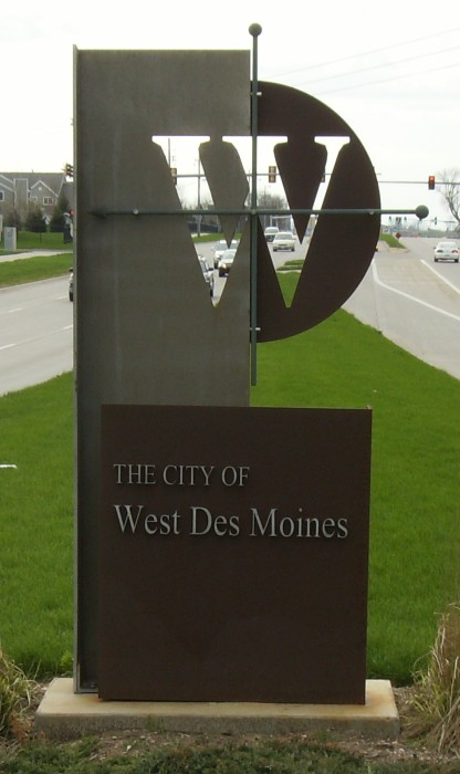 West Des Moines, Iowa, welcome sign